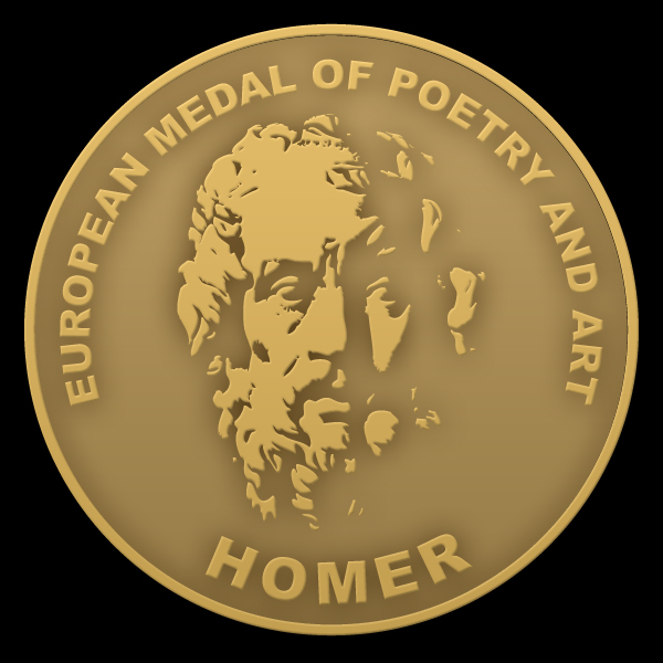 HOMER European Medal of Poetry And Art (avers) project by Dariusz Tomasz Lebioda